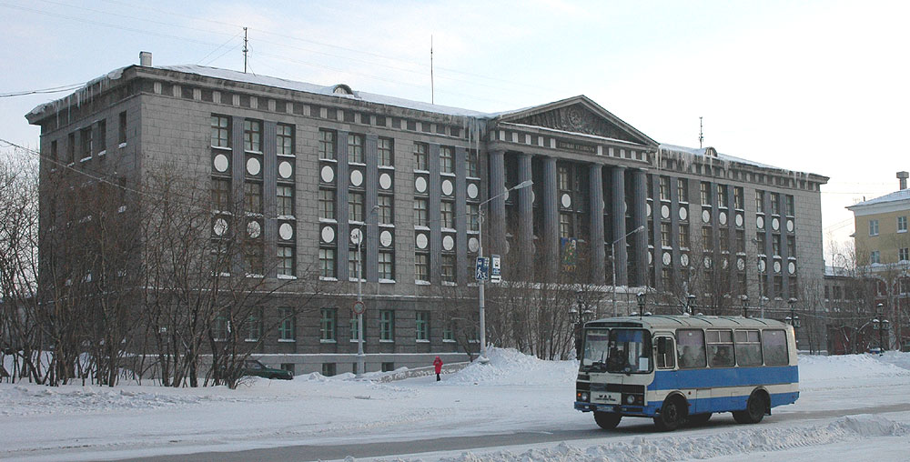 Miner's College in Vorkuta, built in 1957–9 after a project by G. V. Gontskevich.